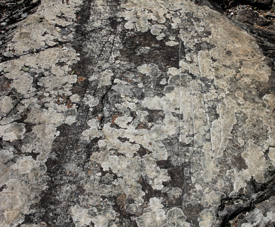 Tesito de los Cuchillos: Petroglifo de tres espadas